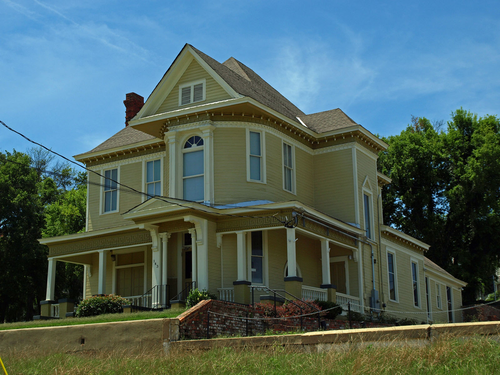 143 Wilkinson Street, part of the Cottage Hill Historic District in Montgomery, Alabama